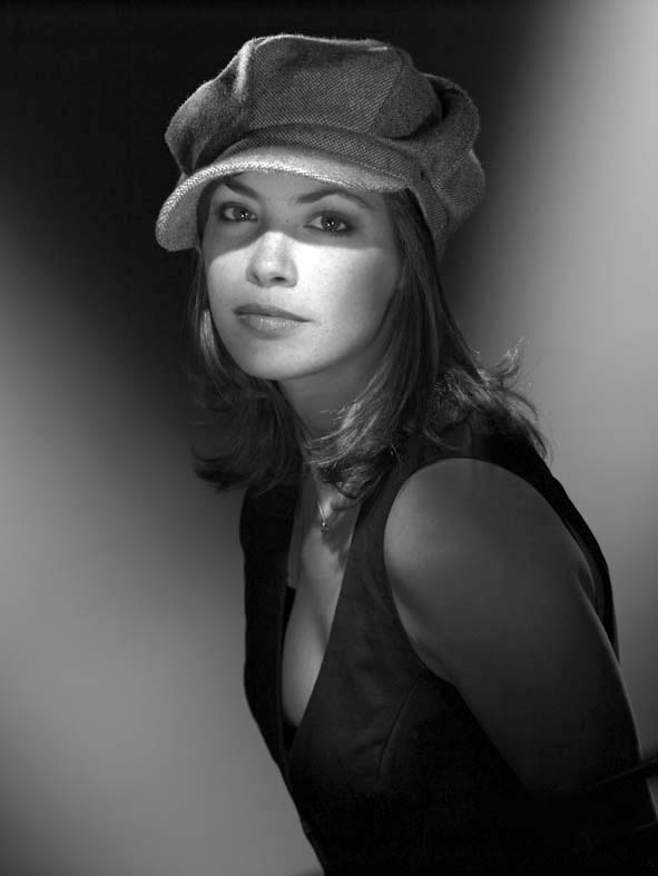 Bérénice Bejo photographed by Studio Harcourt Paris